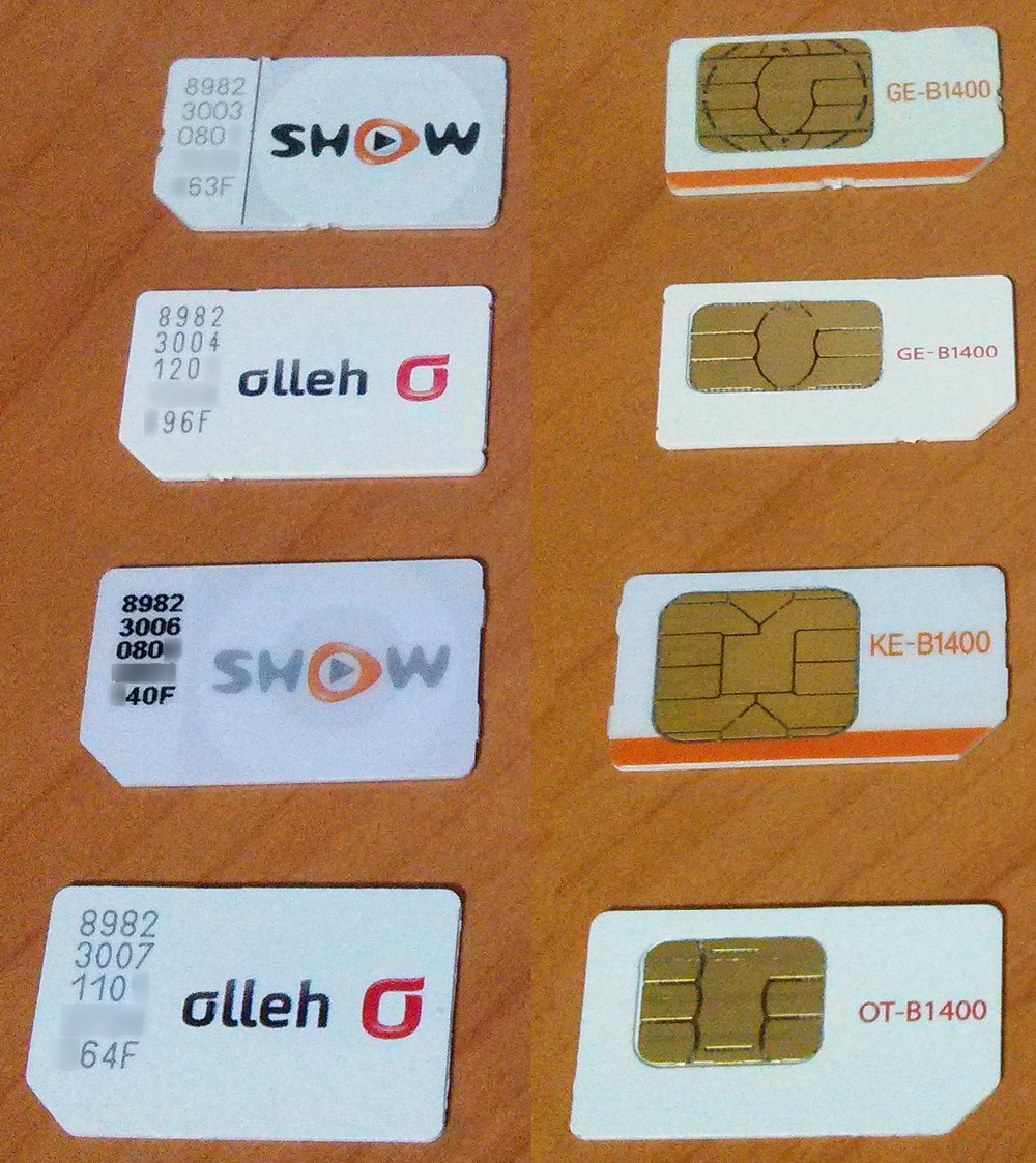 KT USIM